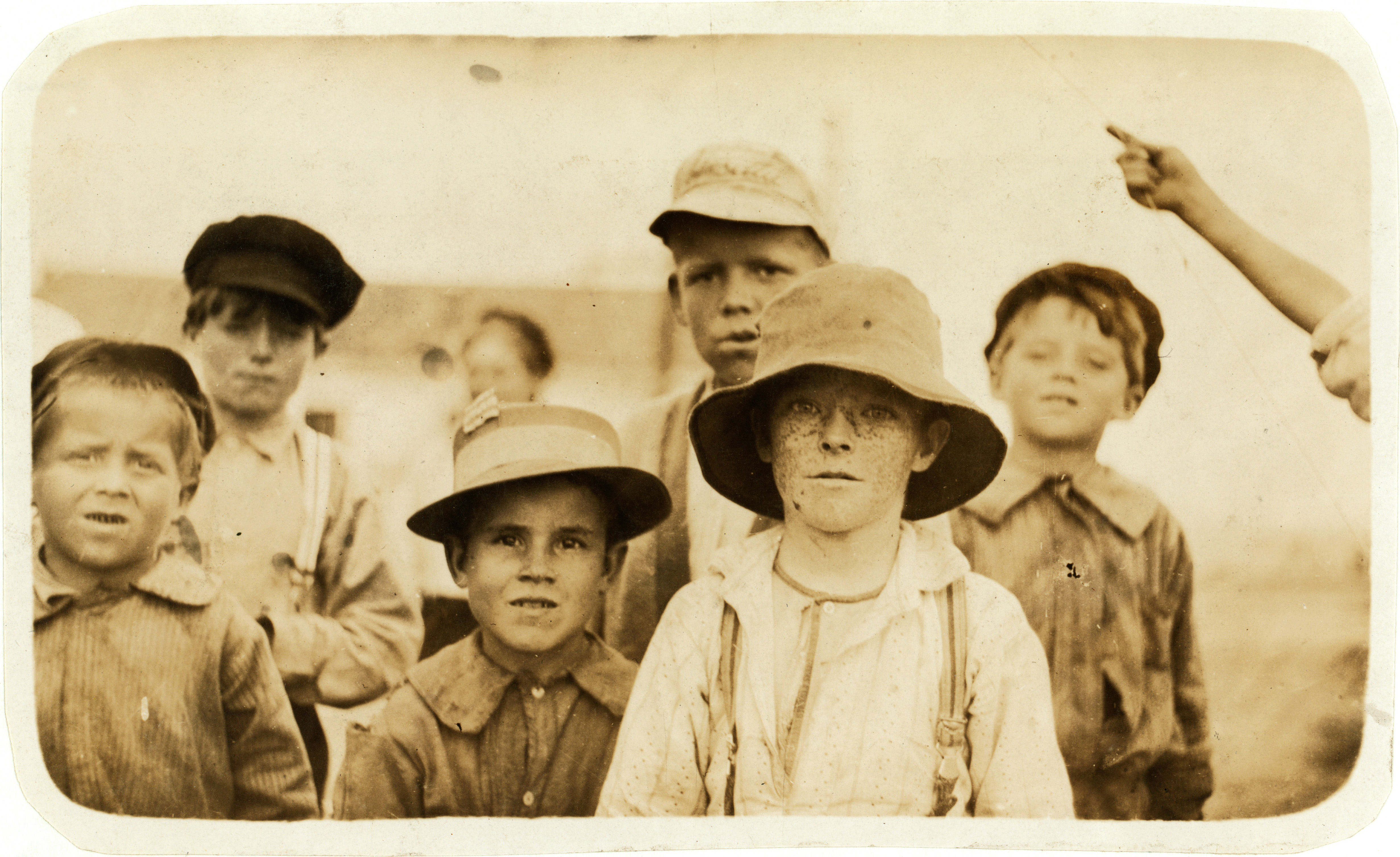 Howard Simmons and Joe Elvis, two of the smallest here, both shuck oysters in Barataria Canning Co. Location: Biloxi, Mississippi. Photograph by Lewis Wickes Hine, February 1911. From the National Child Labor Committee Collection at the Library of Congress